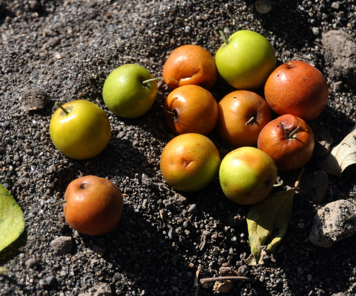 Ripe, fallen fruits of wild Ziziphus mauritiana from North Lombok, Nusa Tenggara, Indonesia